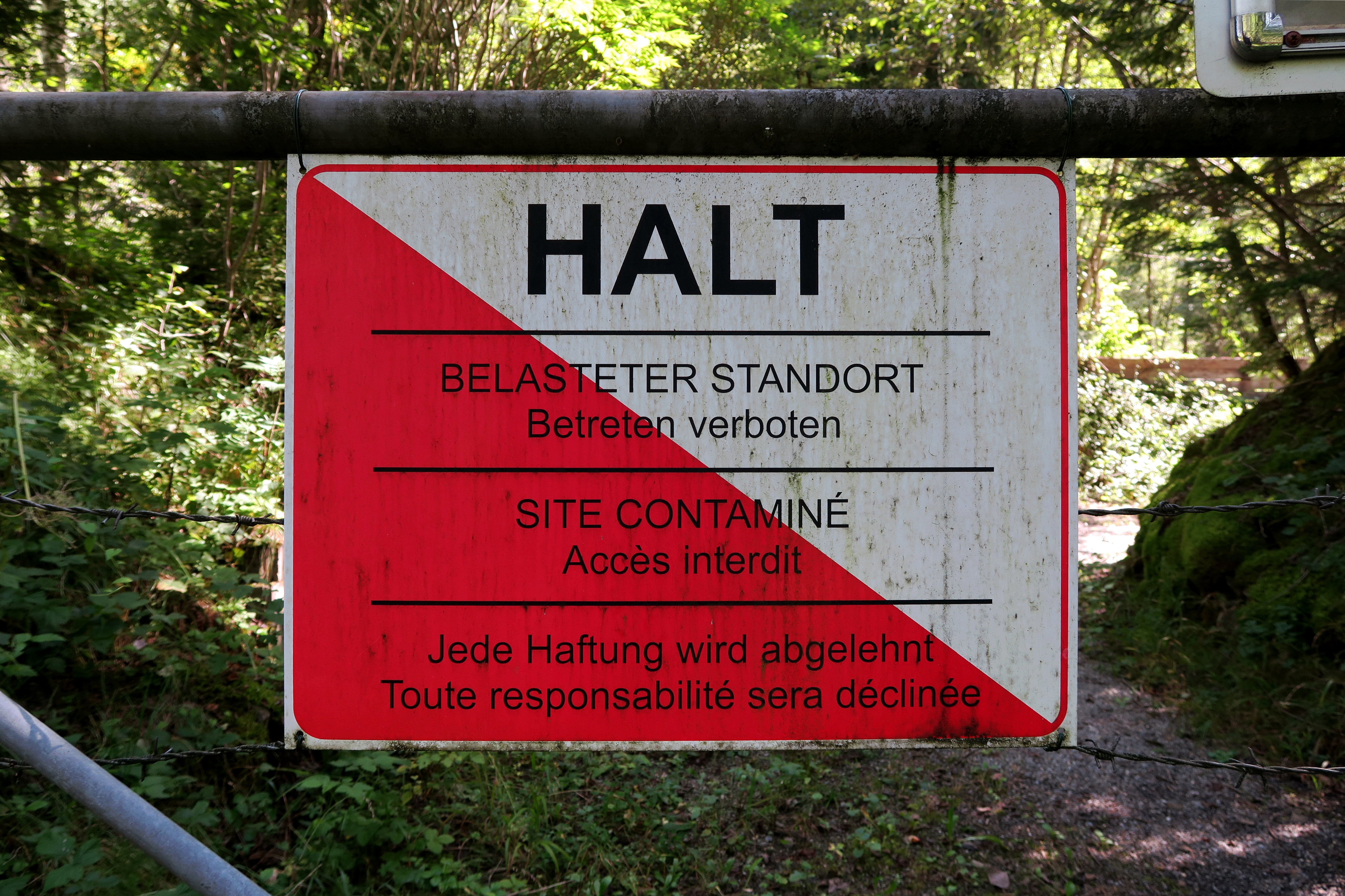 Contaminated sites of the army are continuously remediated. Because there are about 2500 of them, it will take a while. Switzerland, Sep 9, 2015